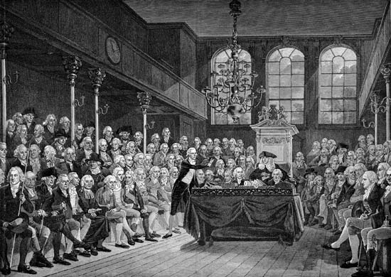 William Pitt the Younger addressing the House of Commons